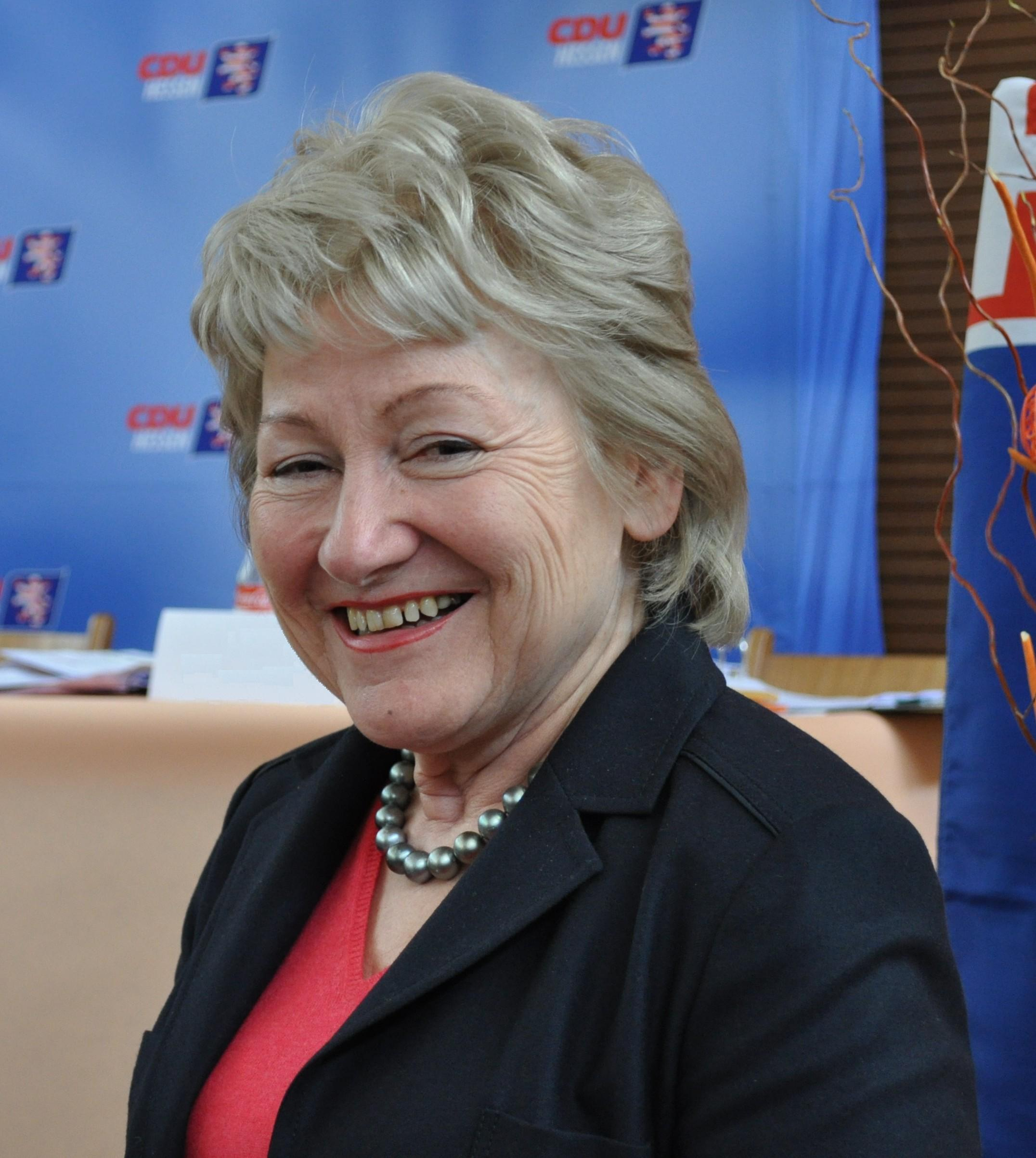 Brigitte Kölsch, Member of the Diet of Hesse (CDU)